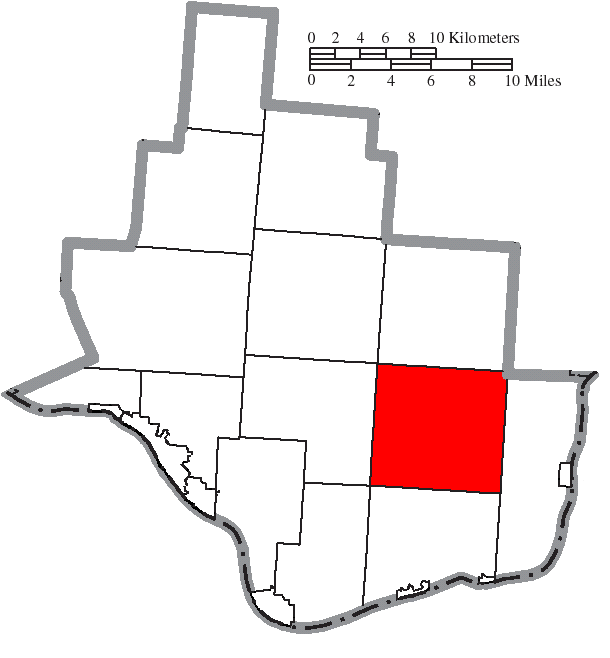 Map of the municipal and township boundaries of Lawrence County, Ohio, United States, as of the 2000 census, with the location of Windsor Township highlighted. Township borders are shown only in unincorporated areas in order to differentiate incorporated and unincorporated areas more clearly.